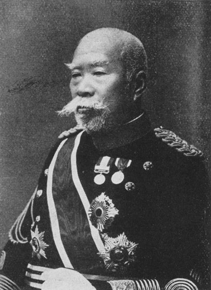 Viscount Tateki Tani, director of the Peeresses' School.